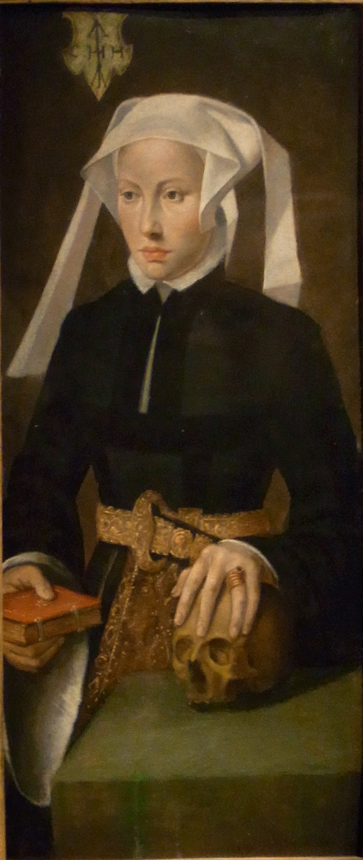 Ruhr Museum at Zollverein Coal Mine Industrial Complex